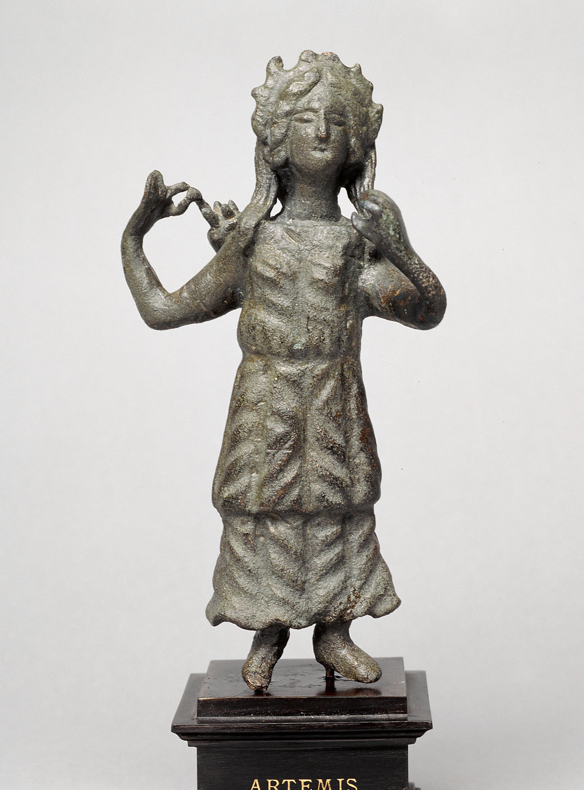 Diana von Scheibbs